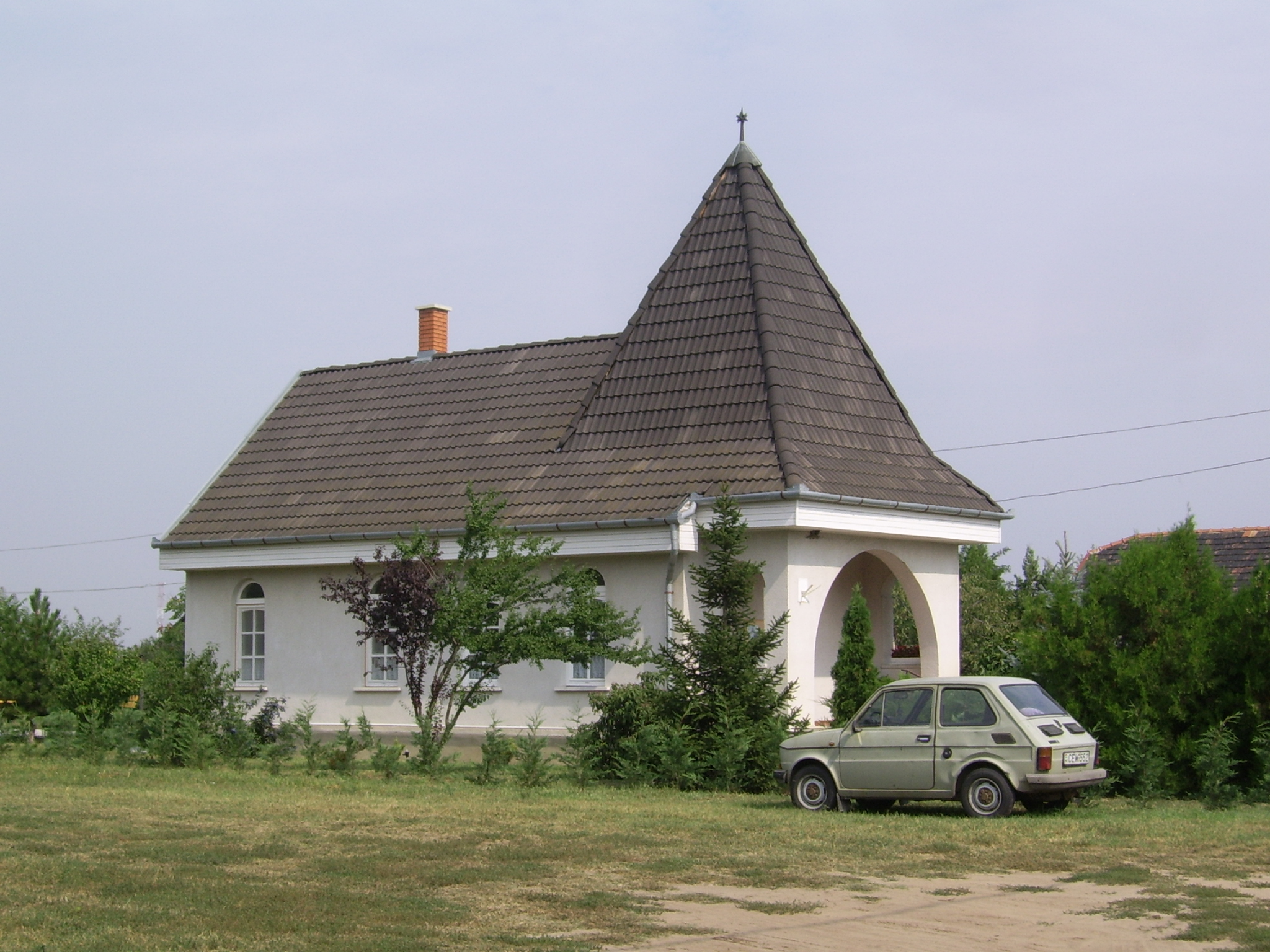 Reformed church of Táborfalva, Huungary